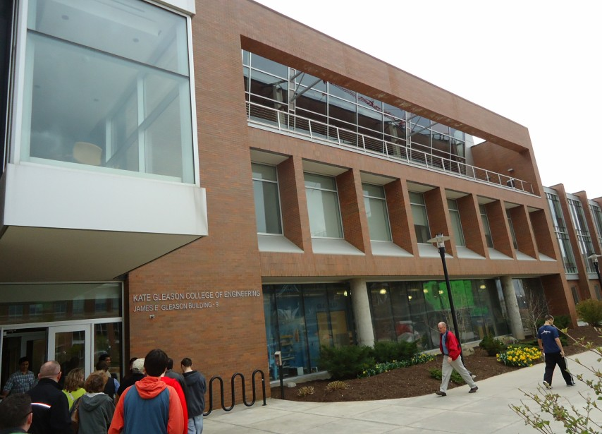 North entrance to the Gleason Building (09) at the Rochester Institute of Technology.